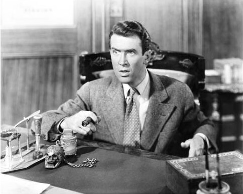 James Stewart in American Christmas fantasy drama film It's a Wonderful Life (1946). No copyright notice.